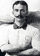 Fuat Hüsnü Kayacan